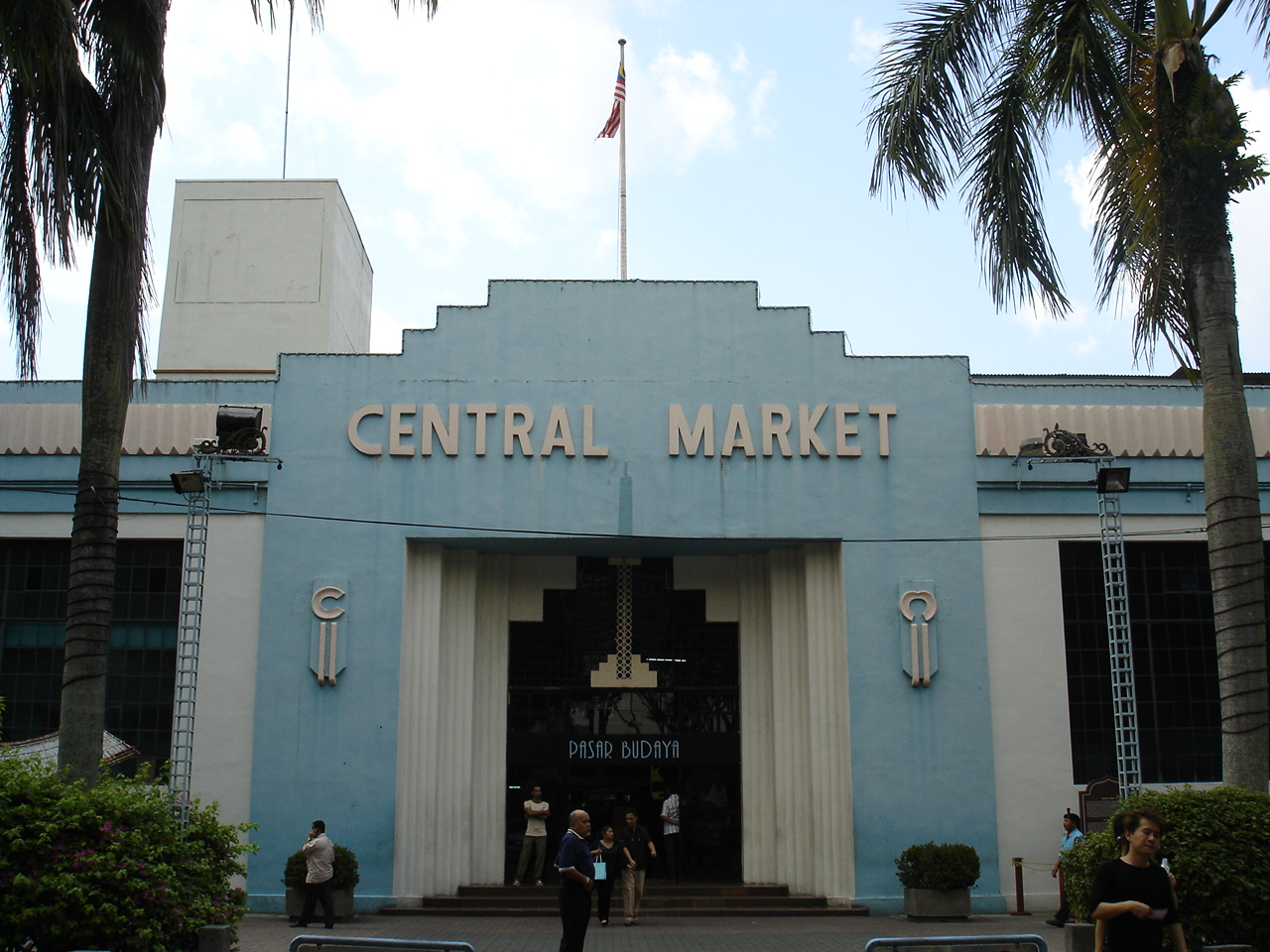 Kuala Lumpur's historical and vibrant cultural hotspot, Central Market.